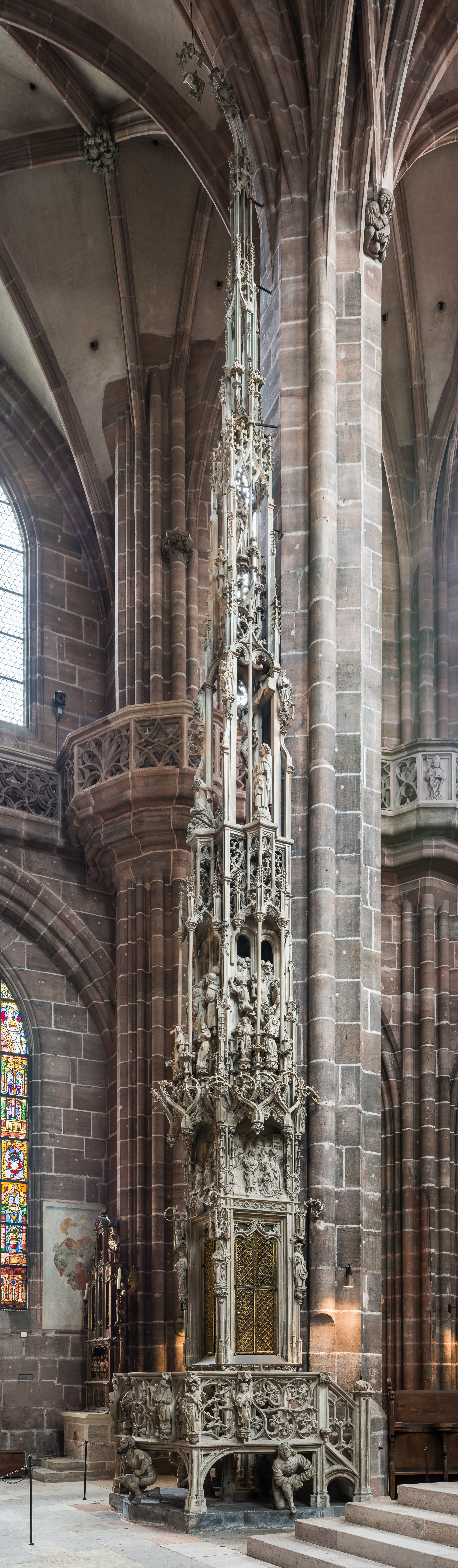 Sacrament house at St. Lorenz parish church in Nuremberg, Middle Franconia, Bavaria, Germany. Adam Kraft, 1493–96.